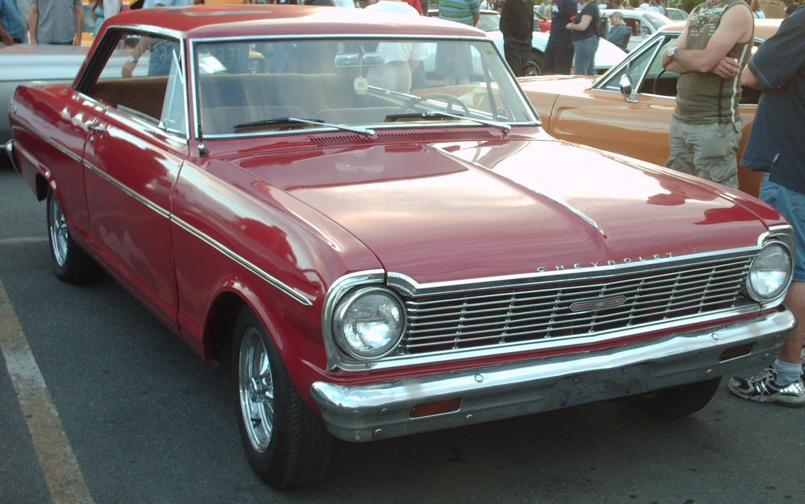 1965 Chevrolet Nova SS 2 door hardtop coupé photographed in Montreal, Quebec, Canada at Gibeau Orange Julep.